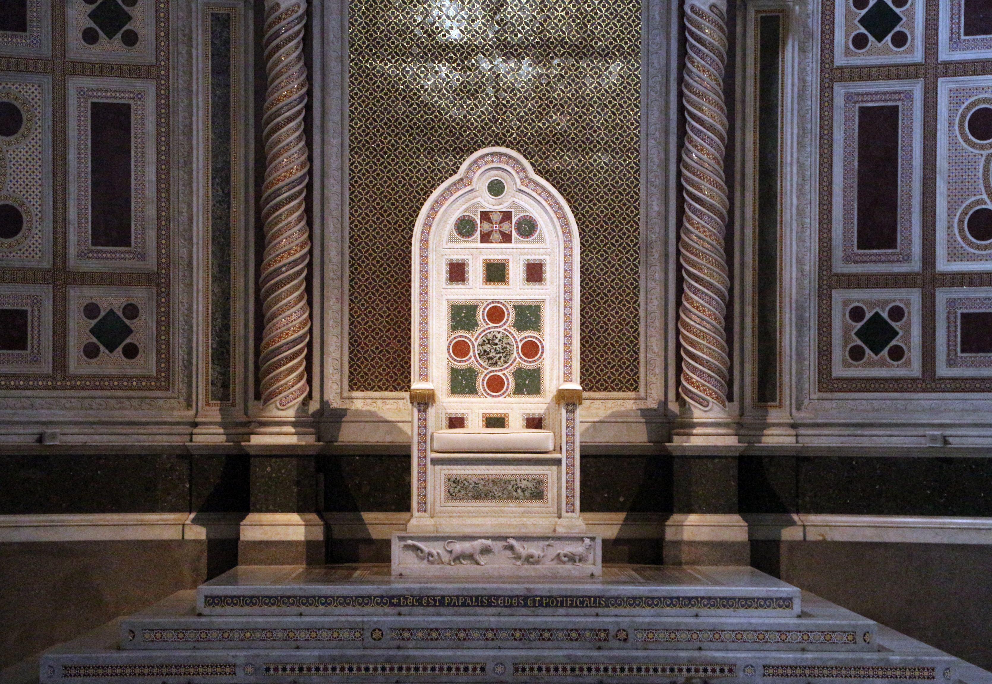 San Giovanni in Laterano (Rome) - Interior